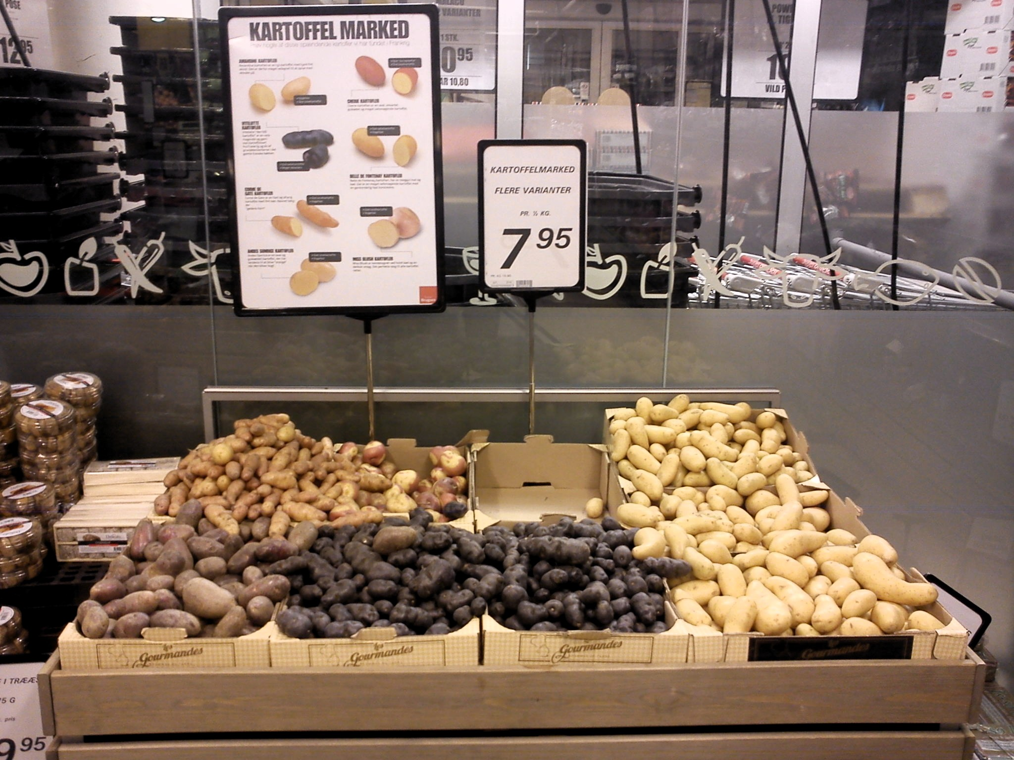 A variety of different potato species for sale at a vegetable market.